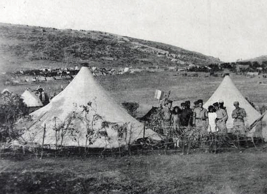 A rare photo card shows a military field brothel in Morocco. Two dark skinned women pose with soldiers outside the tents used for the sexual encounters. The caption reads "At Camp d'Arbalou l’Arbi. The B.M.C."